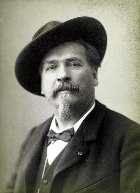 French Occitan writer Frederic Mistral portrait photo